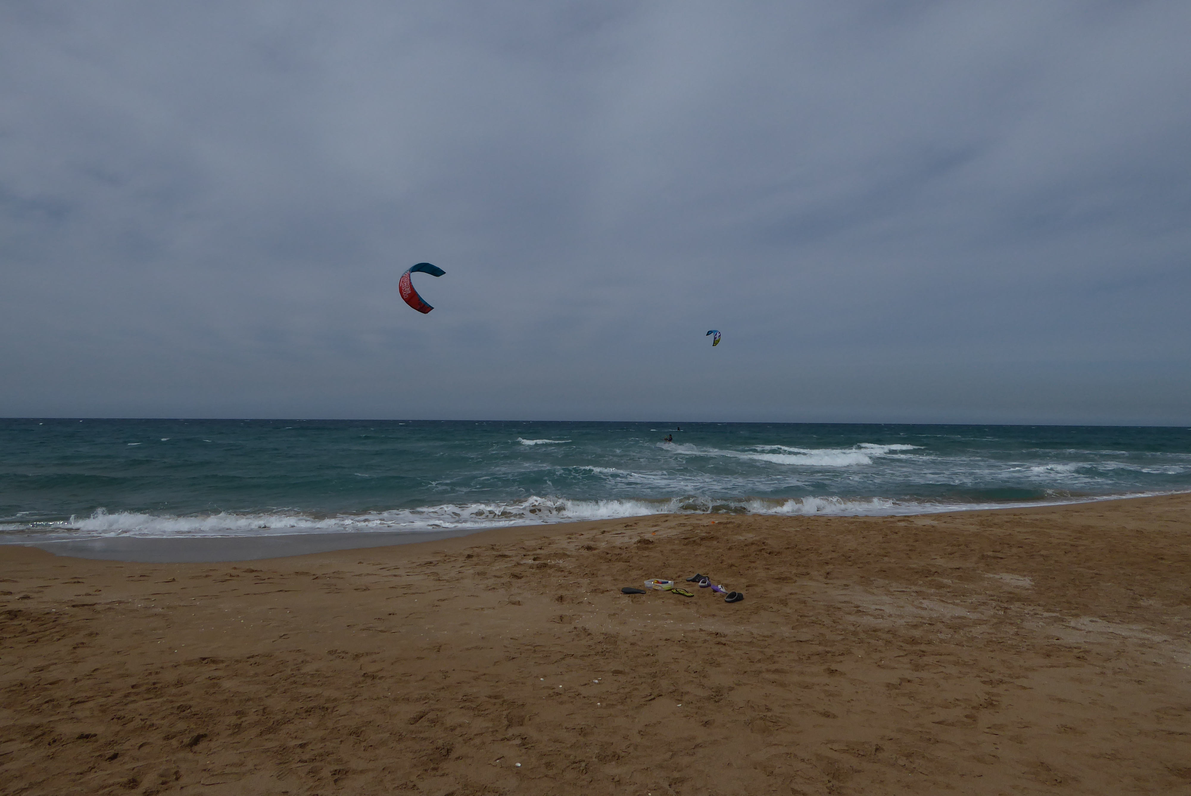 Beaches of Israel